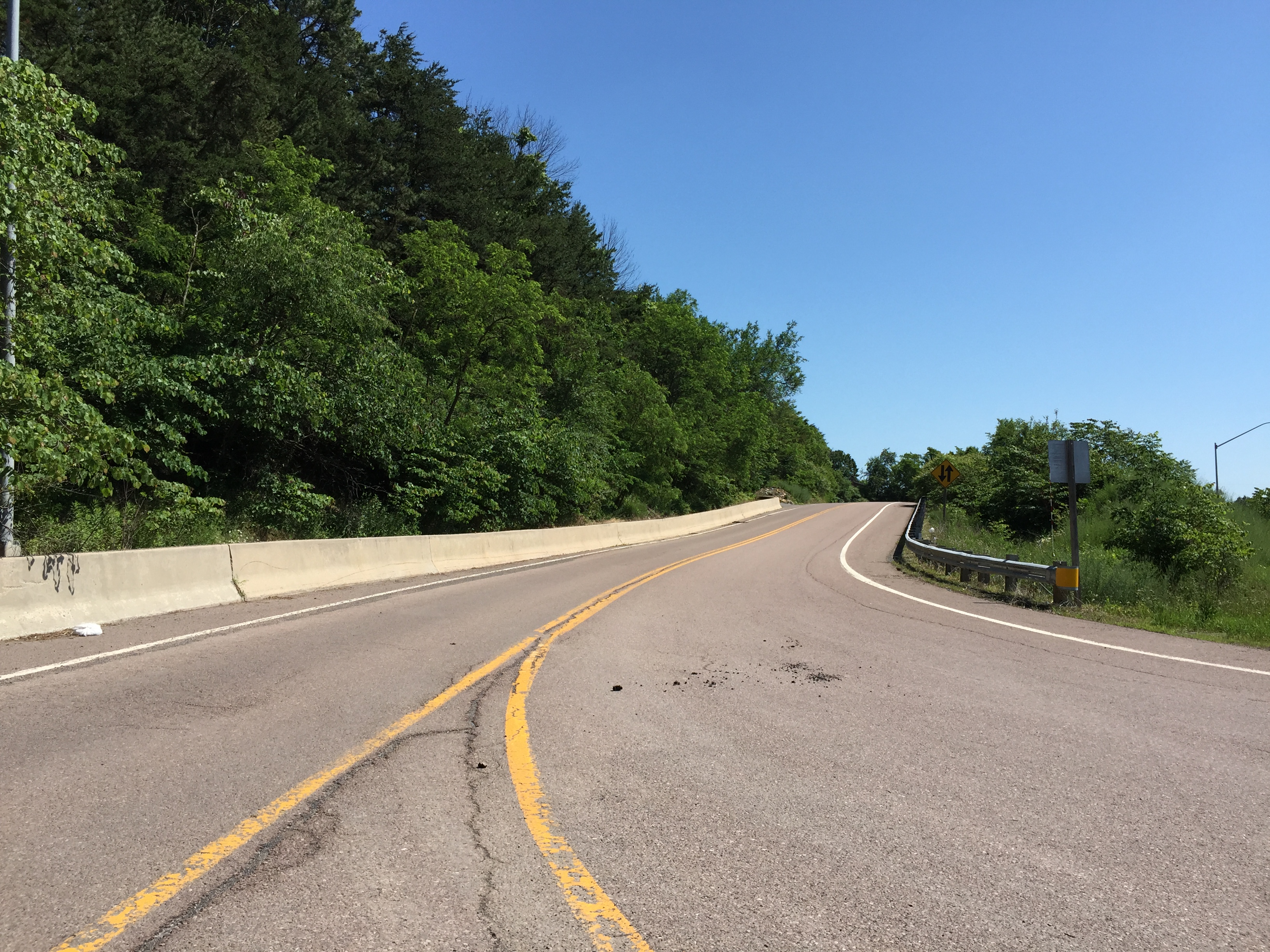 View east at the west end of Maryland State Route 952 (Hillcrest Drive) at Interstate 68/U.S. Route 40/U.S. Route 220 (National Freeway) just northeast of Cumberland in Allegany County, Maryland